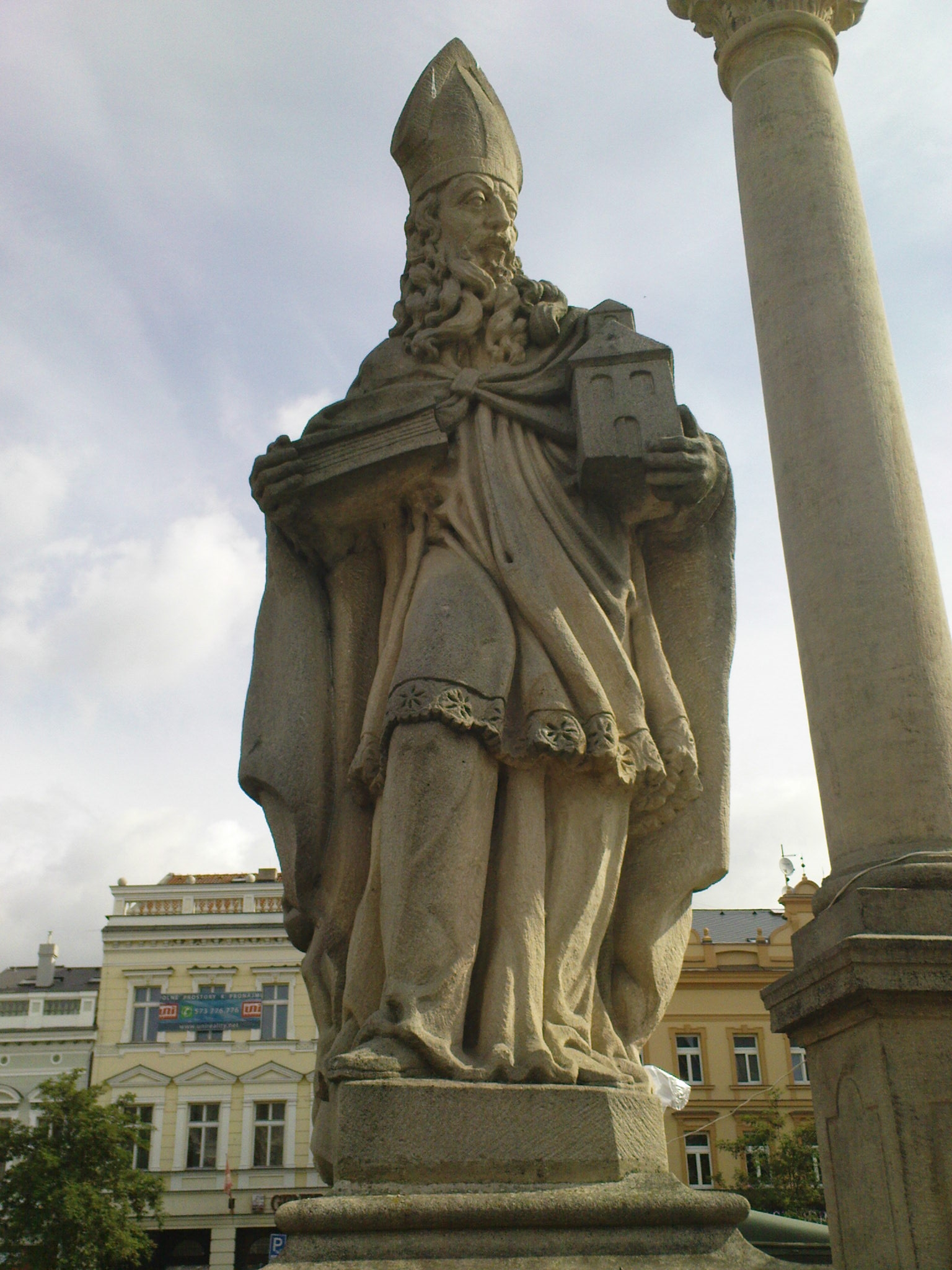 Saint Gotthard of Hildesheim statue in Kolín, Czechia (a copy /baroque original placed in 1764/ from 1997-2000)